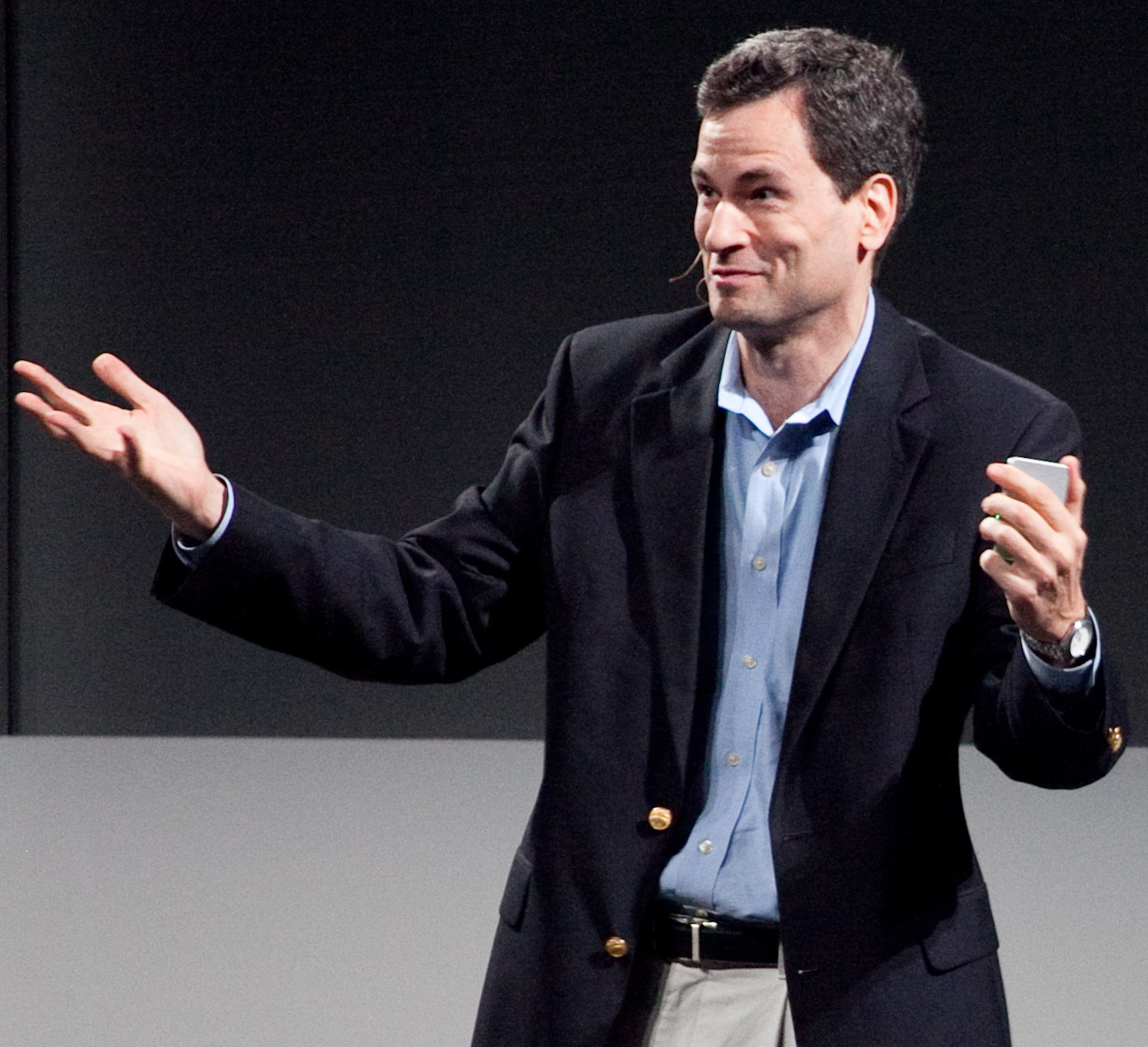 David Pogue speaking at The UP Experience 2010 in October 2010.